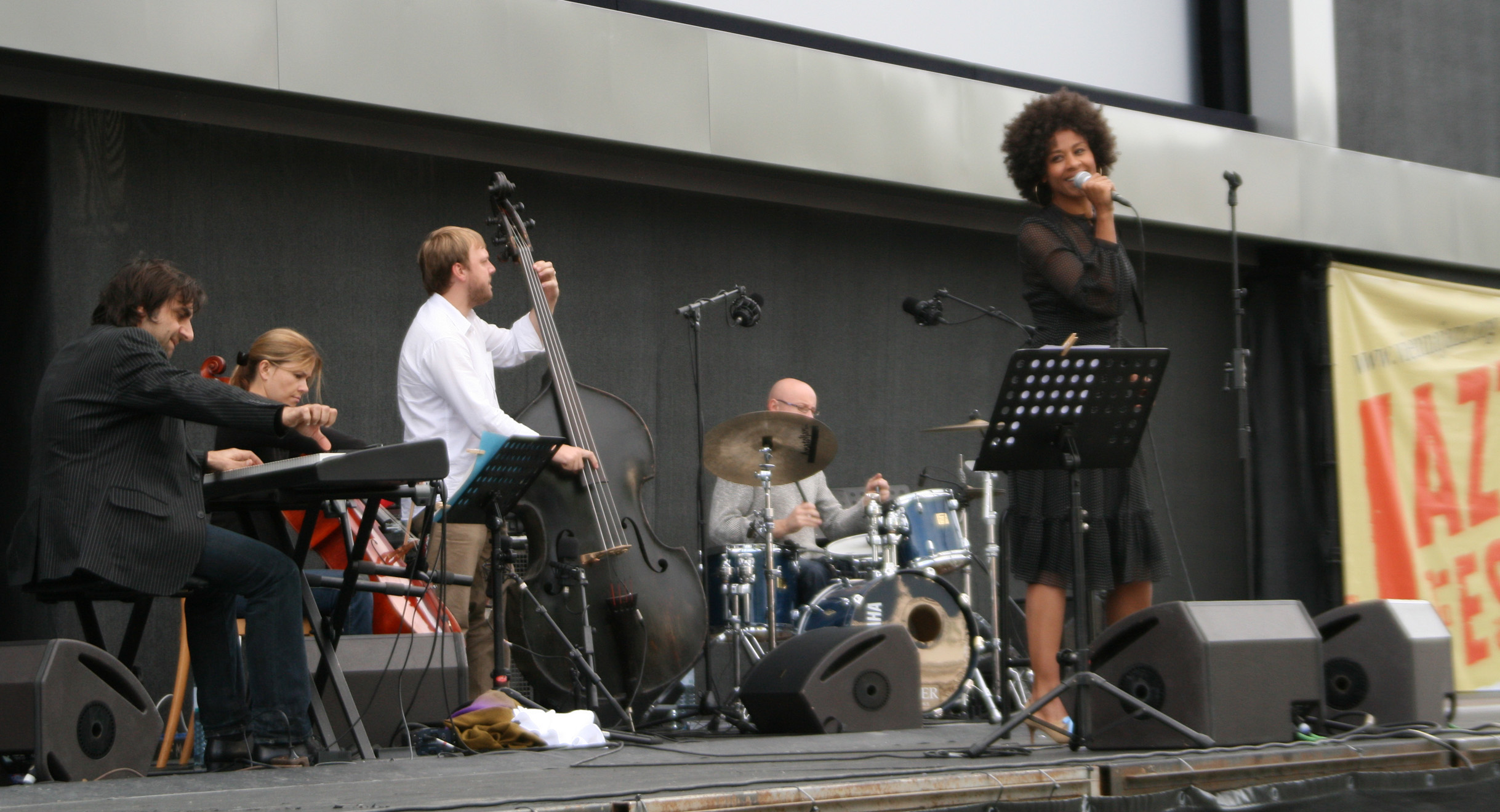 Singer Malia at the Rathausplatz in Vienna; keys: André Manoukian, cello: Mathilde Sternat, bass: Fabien Marcoz, drums: Laurent Robin (Jazz-Fest Wien)